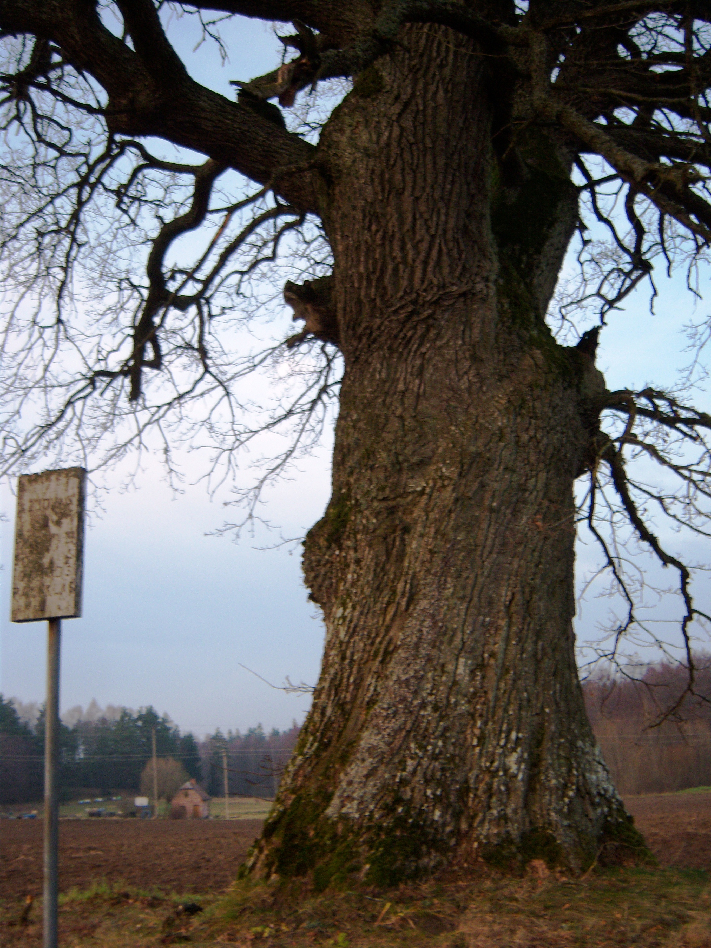 Panūdžiai Oak, Kelmė District, Lithuania